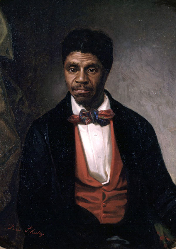 Dred Scott (1795 – 1858), plaintiff in the infamous Dred Scott v. Sandford (1857) case at the Supreme Court of the United States, commissioned by a "group of Negro citizens" and presented to the Missouri Historical Society, St. Louis, in 1888.[1][2]